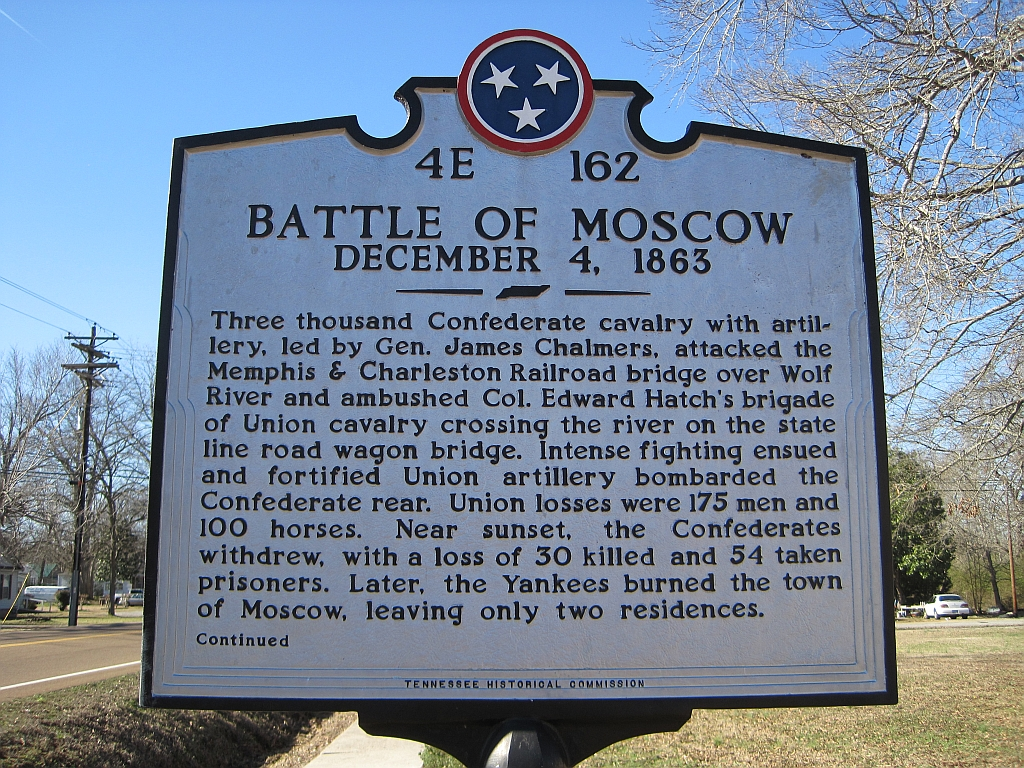 Moscow, Tennessee Battle of Moscow historical marker